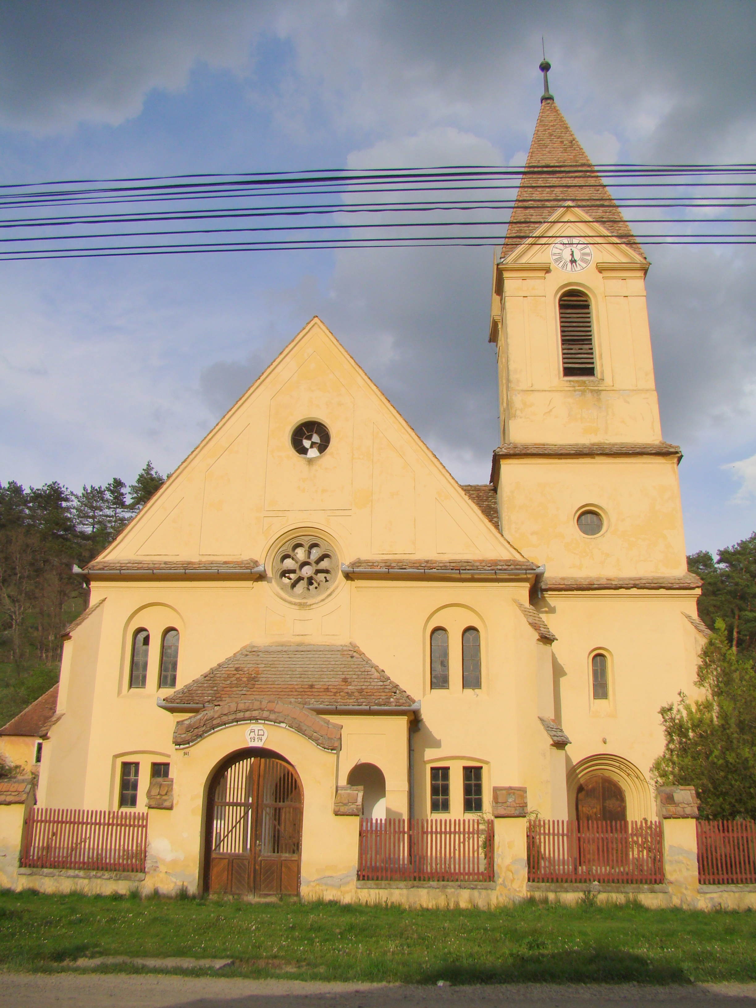 Lutheran church in Stejărenii, Mureș county, Romania